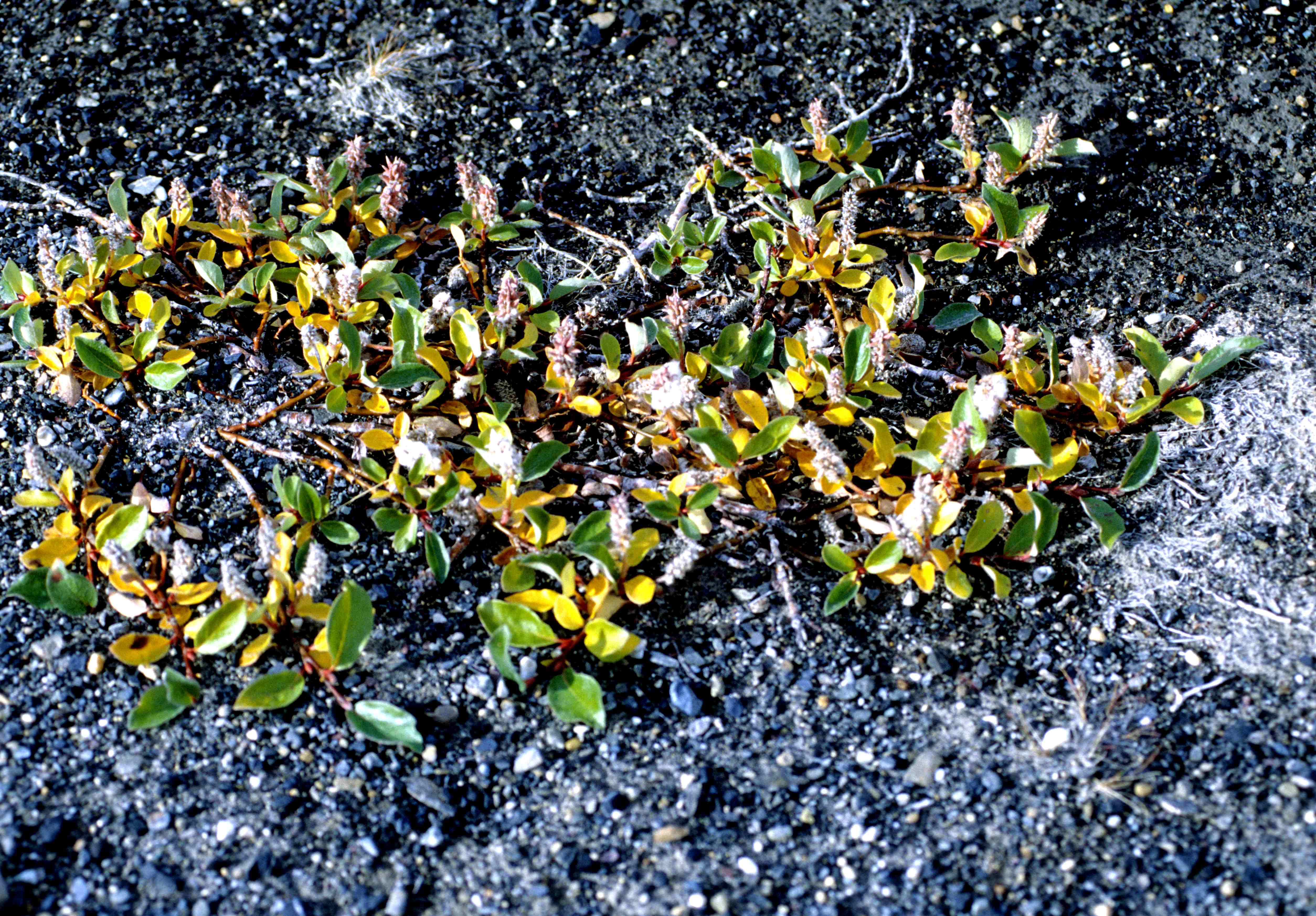 Arctic Willow (Salix arctica); Quttinirpaaq National Park, Nunavut, Canada